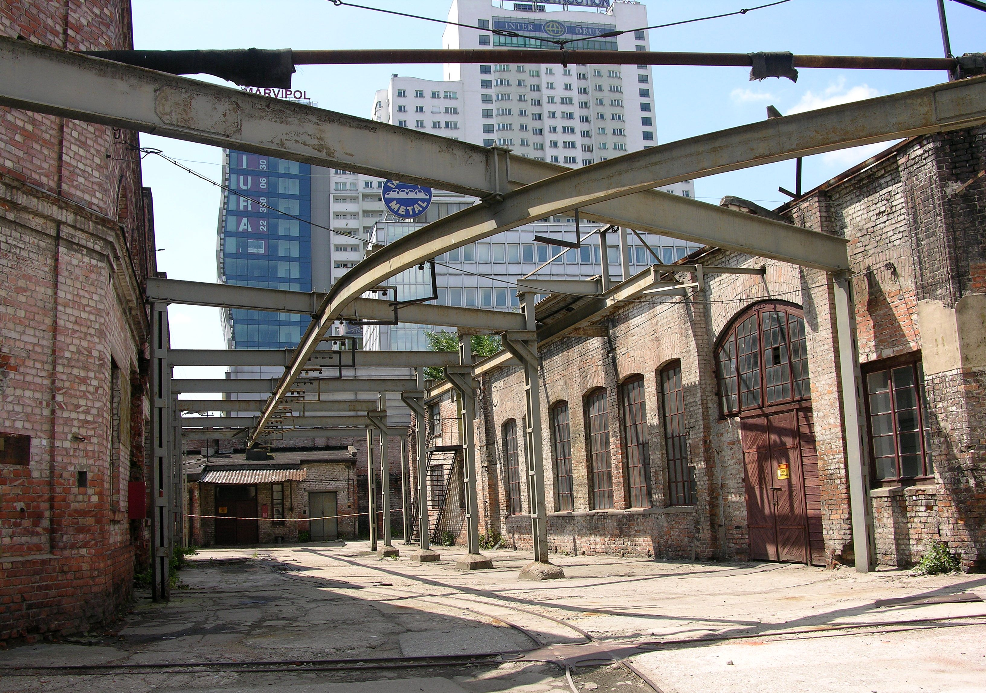 Former Norblin factory in Warsaw